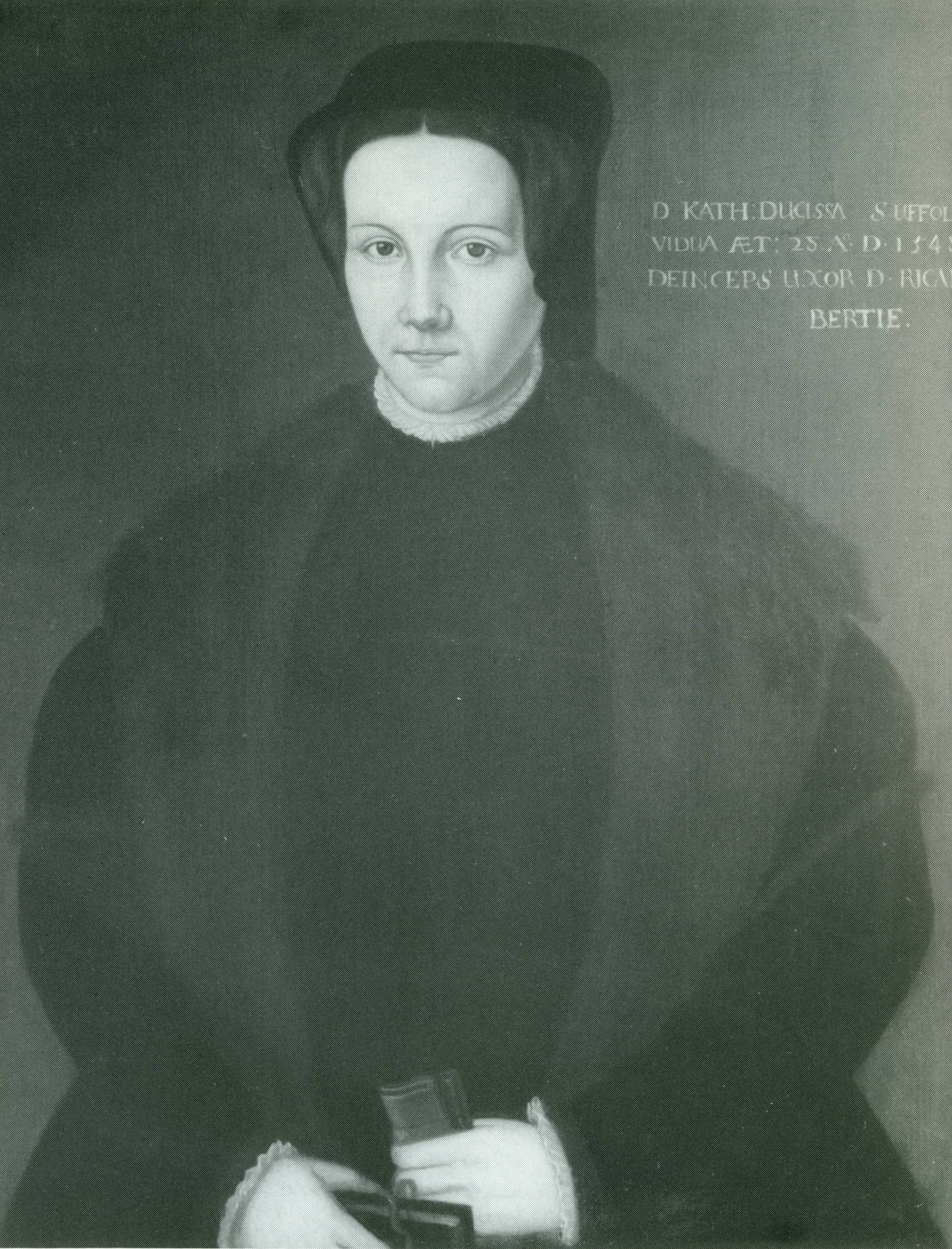 Portrait of Catherine Willoughby, Duchess of Suffolk, 1548